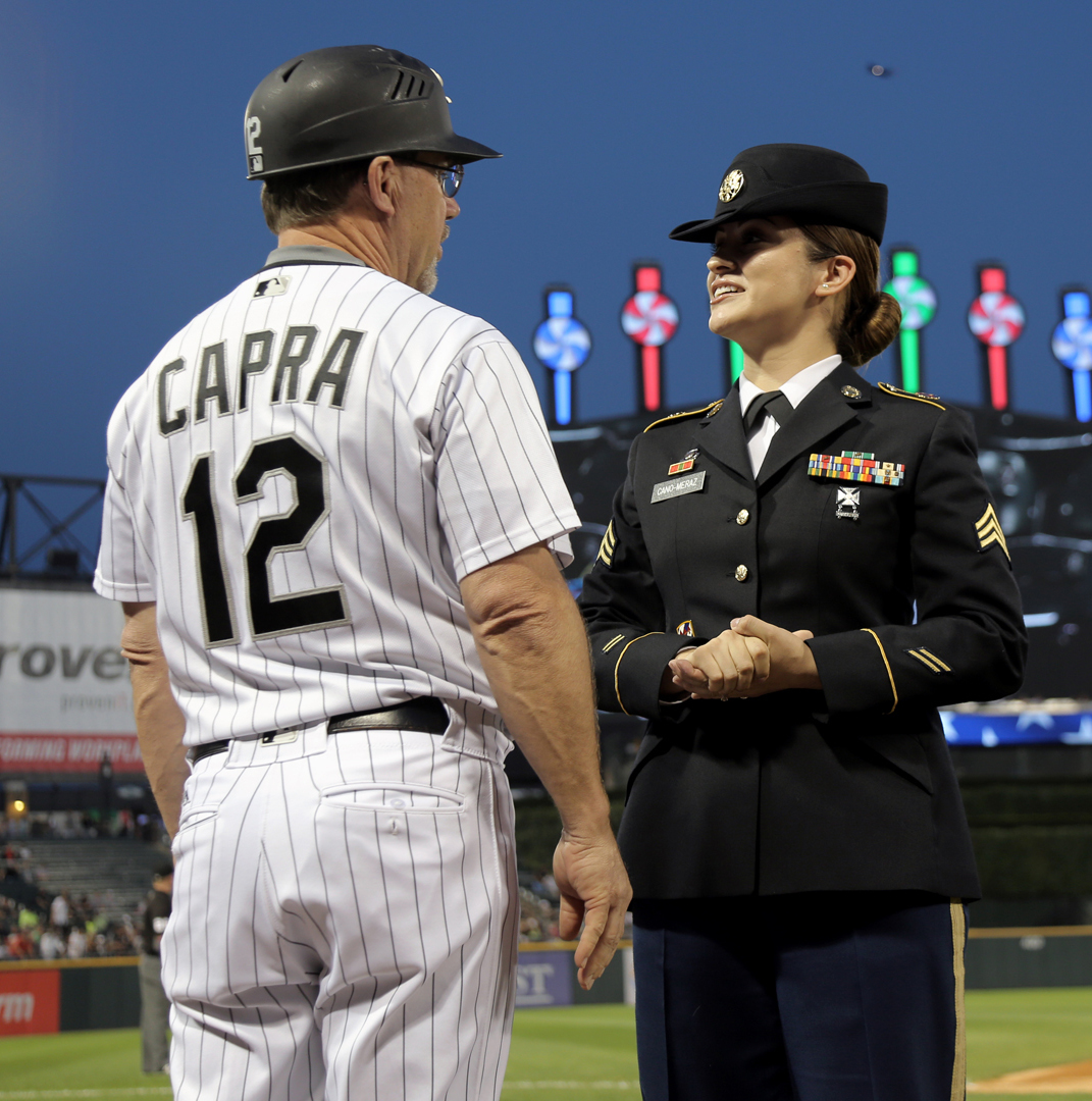 Sgt. Maribel Cano-Meraz, assigned to the 85th Support Command headquartered in Arlington Heights, Illinois, meets Nick Capra, Chicago White Sox third base coach, during the White Sox vs. Houston Astros game ‘Hero of the Game’ military recognition, there, at Guaranteed Rate Field. Meraz was honored for her service, to include deployments to Iraq, Kuwait and Qatar, in front of an estimated 15,000 spectators in attendance. (U.S. Army Reserve photo by Anthony L. Taylor/Released)